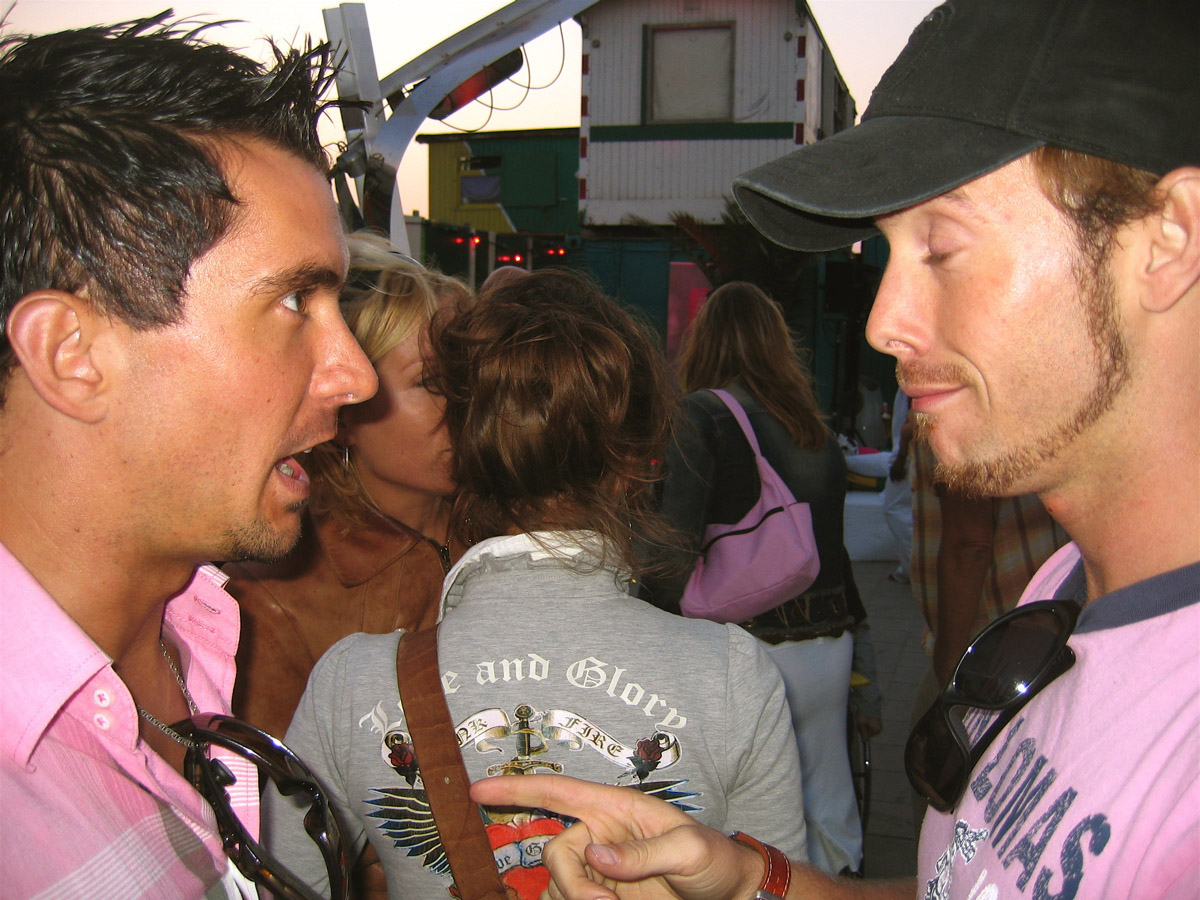 Guido Weijers (left) and Charly Luske (right) at a beachparty of radio CAZ!